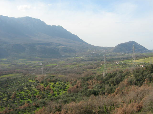 Panoramic view of Sicignano's valley from Castelluccio Cosentino. You can see Zuppino (in the middle of valley), Scorzo (between the hill and the Alburni mountains) and Terranova (on the hill, near Sicignano). Within Cilento and Vallo di Diano National Park.